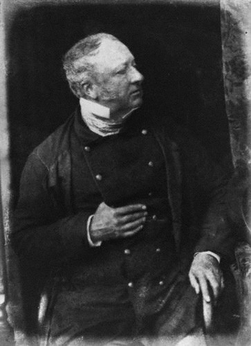 Photograph of Henry Robert Westenra, 3rd Baron Rossmore (1792–1860)